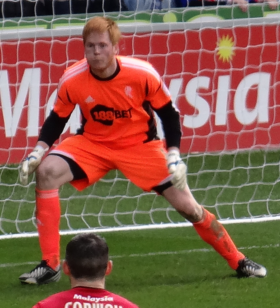 Adam Bogdan playing for Bolton Wanderers.